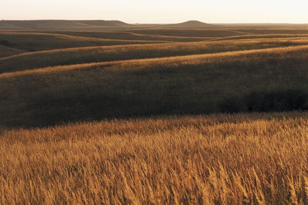 Flint Hills National Wildlife Refuge, KS Photo: Jim Minnerath, USFWS